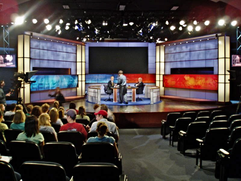 Studio of CNN's Crossfire on the campus of the George Washington University just after taping. On stage were the hosts for that day, Paul Begala (left) and Robert Novak (right). In the studio seats sit a journalism class from the School of Media and Public Affairs.